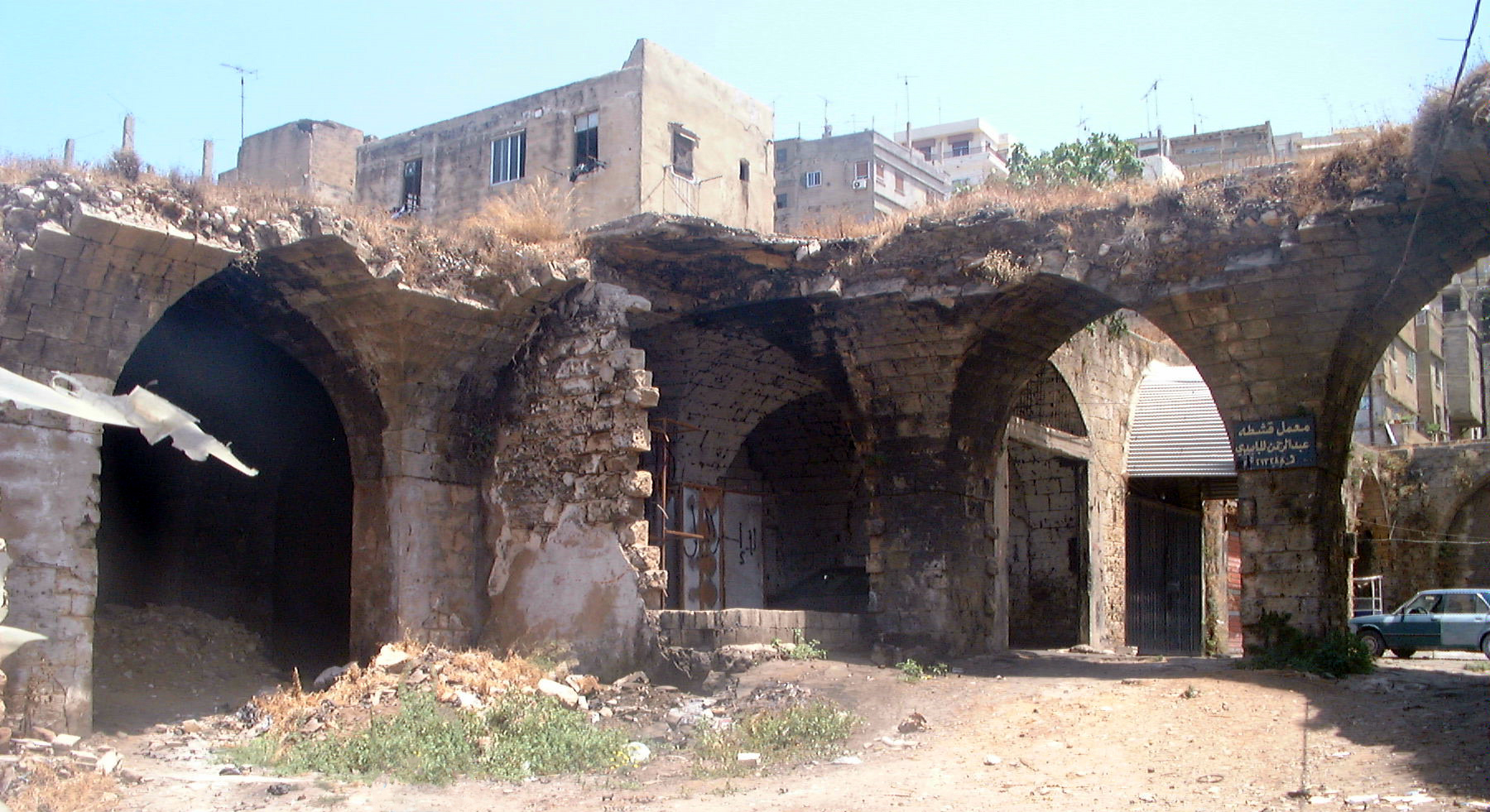 Ruins in Tripoli, Lebanon.